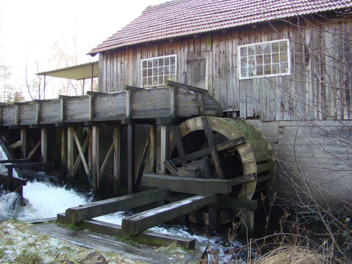 Luttermühle sawmill on the Weesener Bach in 2008, Lower Saxony, Germany